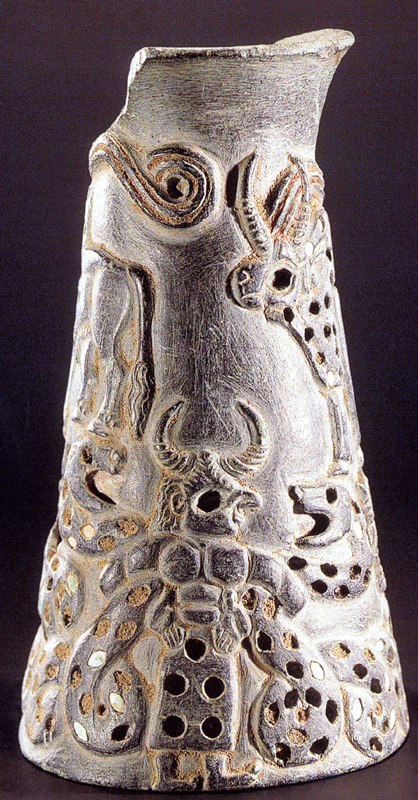 Vase from the Jiroft region. A "two horned" figure wrestling with serpents. The Elamite artifact was discovered by Iran's border police from Historical Heritage traffickers, en route to Turkey, and was confiscated. Style is determined to be from Jiroft culture.[1]